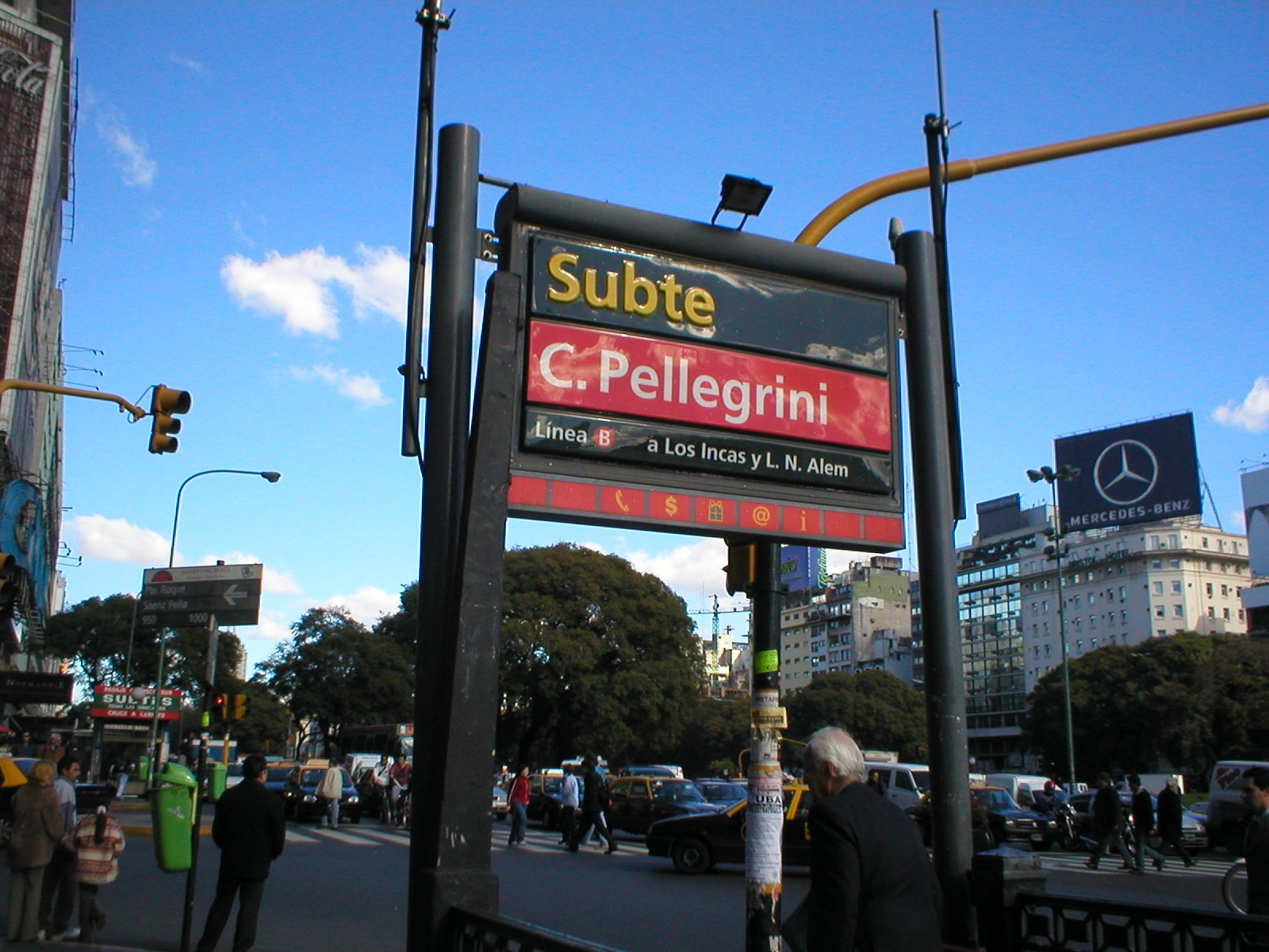 Buenos Aires' underground station Pellegrini (line B)